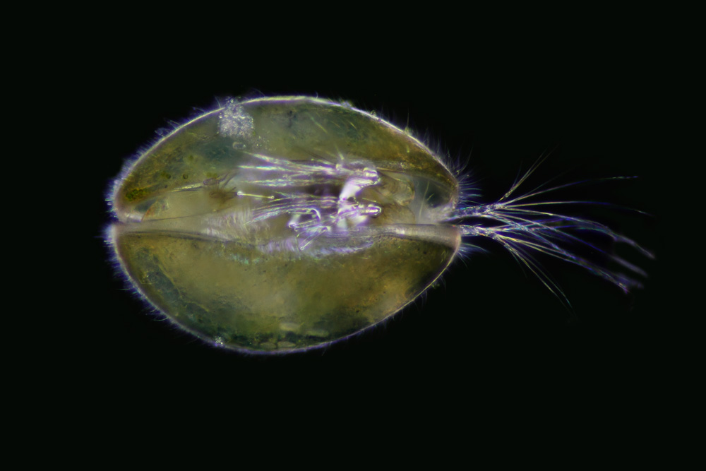 An Ostracod